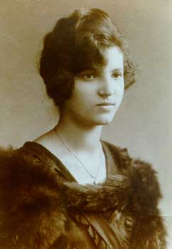 Austrian author Rose Ausländer